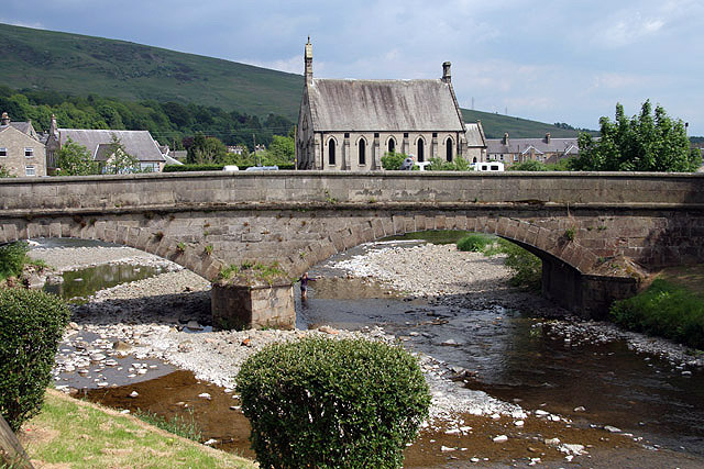 A bridge over the Wauchope Water This bridge in Langholm spans the Wauchope Water just before it joins the River Esk. The water level is very low after little rainfall for the month of May. The prominent building in the background is a former church that has been converted into the Langholm Community Centre.